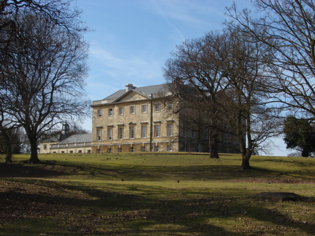 Botley Park Mansion, Chertsey A view of the mansion from the southeast. This former stately home was used for many years for staff accommodation for the Botley Park mental hospital before a fire severely damaged the building in the early 1990s. The building was bought by P&O and refurbished as their headquarters.